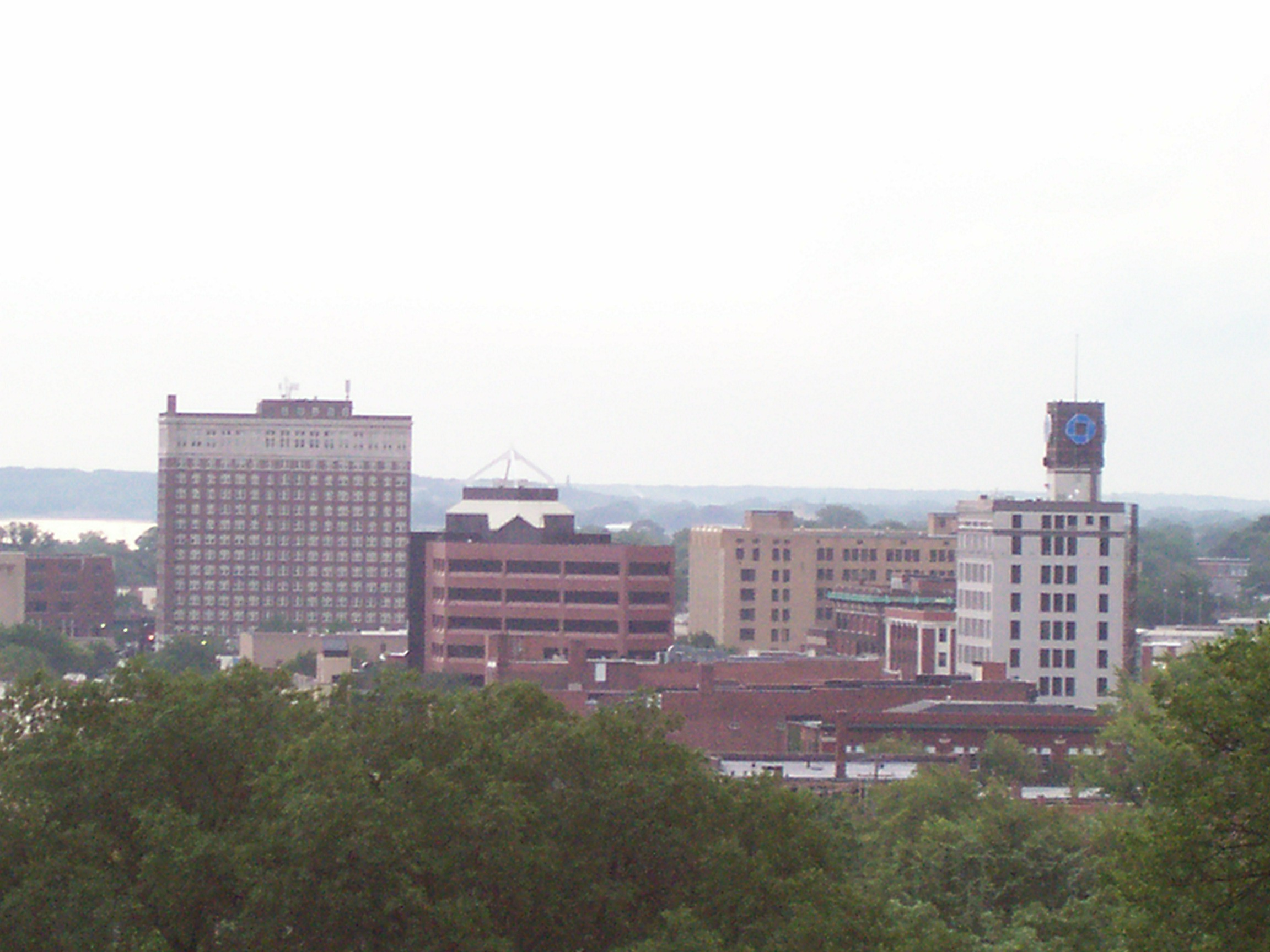 Downtown Moline, Illinois, 2006